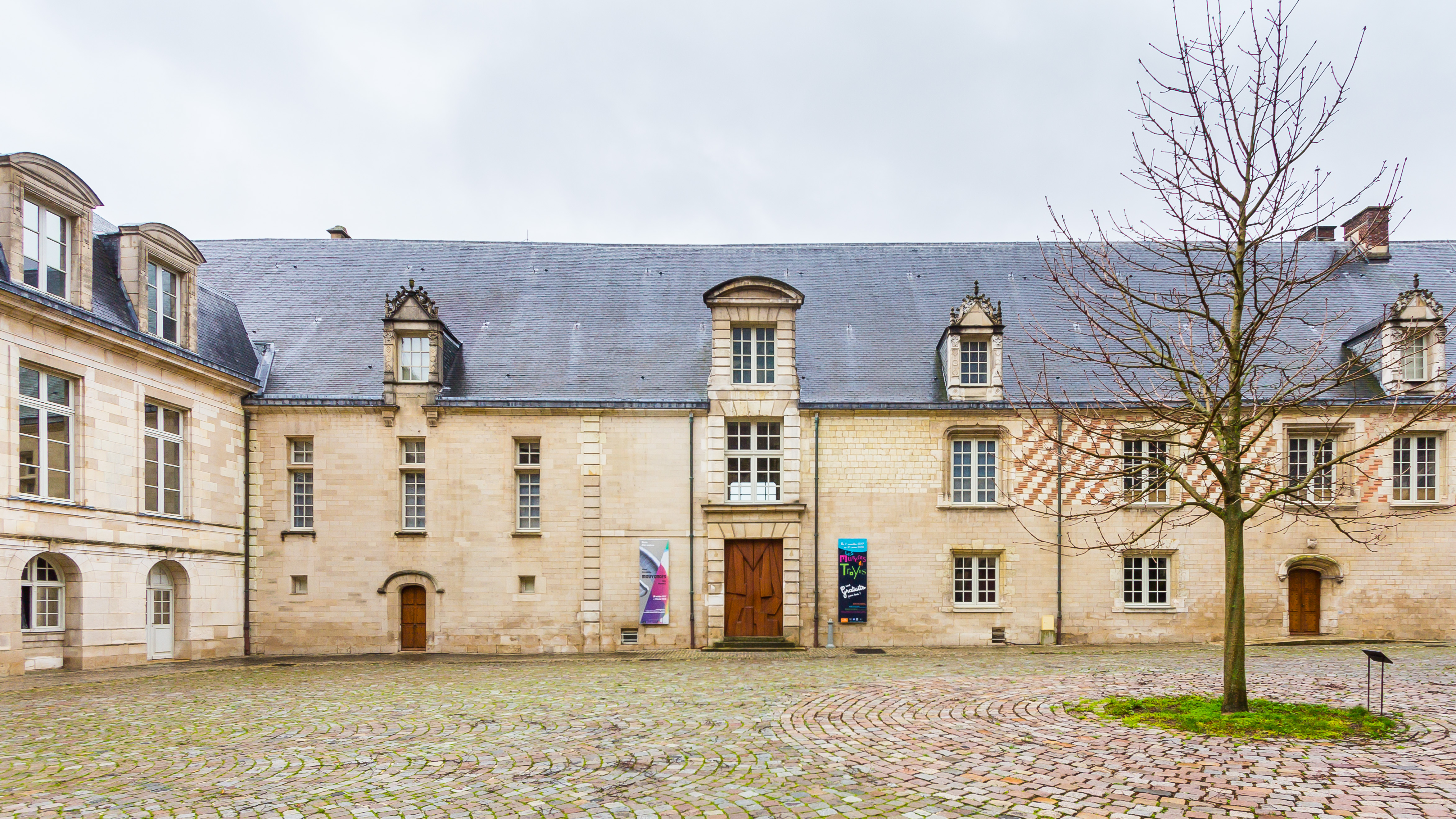 Entrance area of the Musée d'art moderne de Troyes